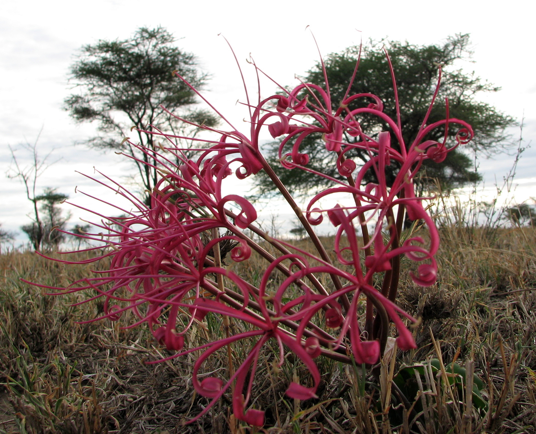 Ammocharis tinneana, Serengeti